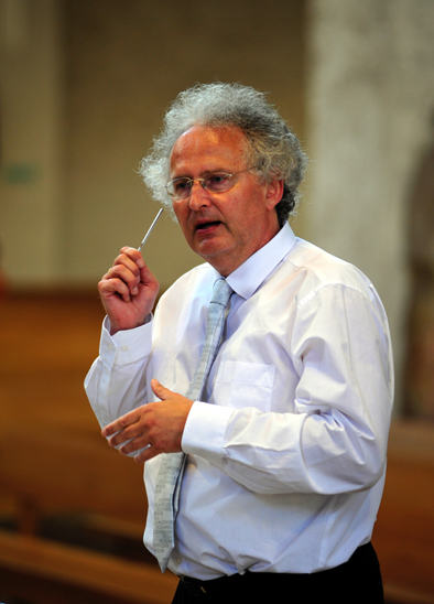 Roderich Kreile, cantor of the Kreuzkirche (Church of the Cross) in Dresden, rehearsing the boys' choir Dresdner Kreuzchor in June 2012.